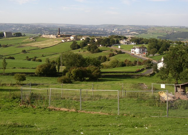 View of Blackley from Kew Hill, Elland. From the left, the (former?) Baptist Chapel, a road down to a landfill site, the disused brickworks, the hamlet of Blackley, the cricket field and the Golden Fleece, and Kew Hill bottom. The road across the view in the middle distance is a bridleway to Haigh House.